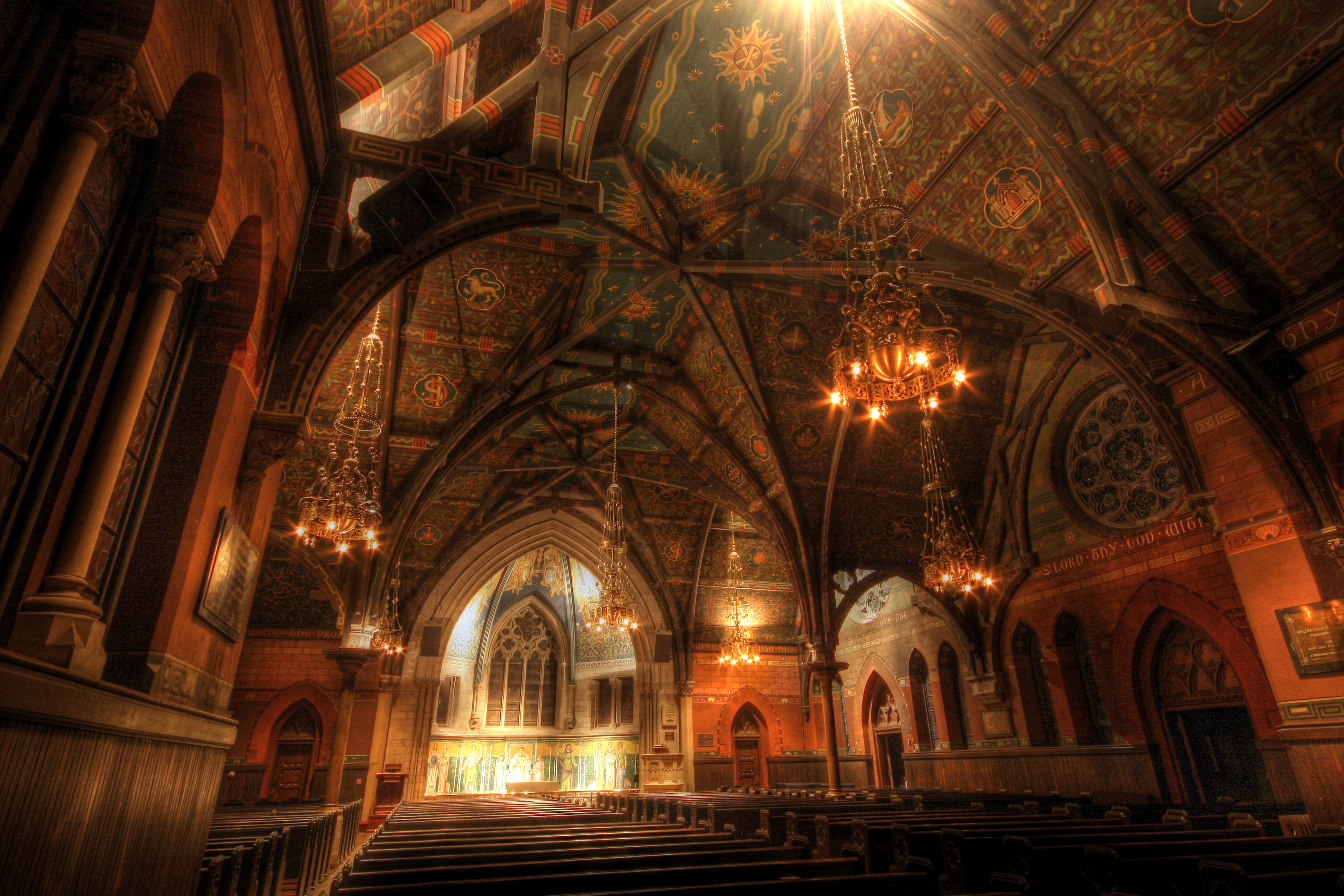 View On Black